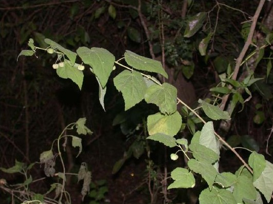 Ayenia limitaris from USFWS document, no copyright or author information